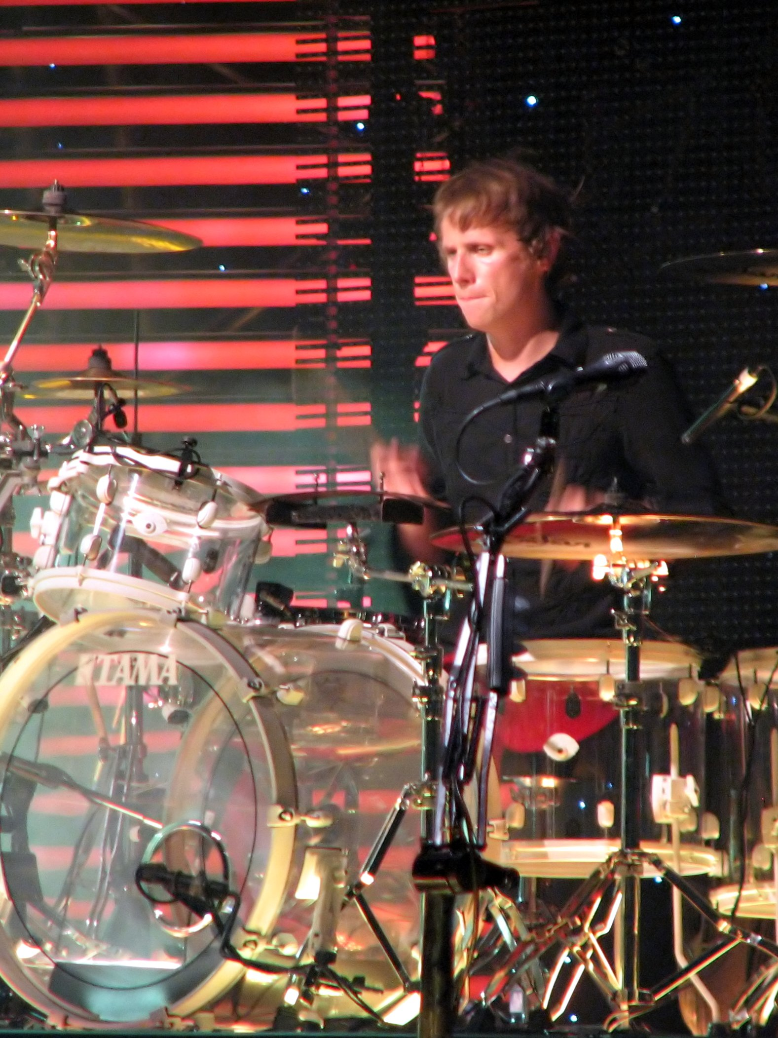 Christopher Wolstenholme Performing in Toronto.